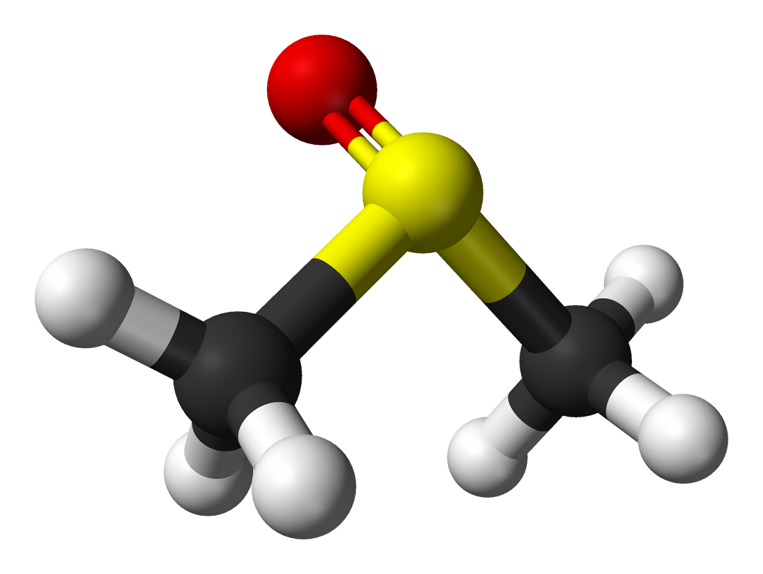 Ball-and-stick model of the dimethyl sulfoxide molecule, (H3C)2SO. X-ray crystallographic data from R. Thomas, C. B. Shoemaker and K. Eriks (July 1966). "The molecular and crystal structure of dimethyl sulfoxide, (H3C)2SO". Acta Cryst. 21 (1): 12-20.